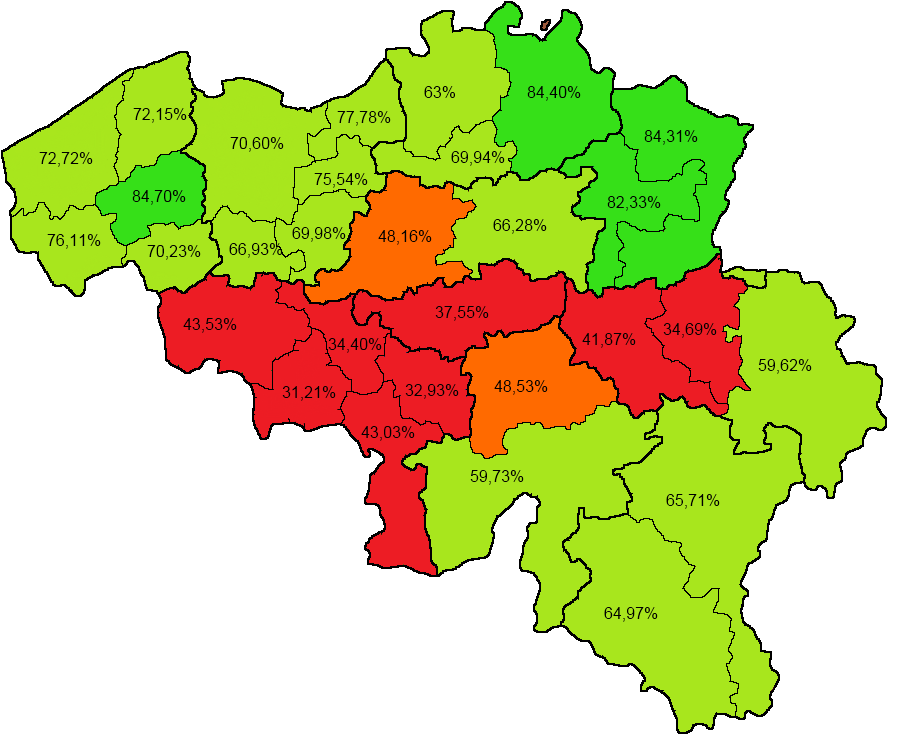 The percentage of valid votes in favour of the return of Leopold III, per electoral district. Based on the current map of Belgium, a few municipalities were then (1950) part of a different province, of which on this map only Komen-Waasten/Comines-Warneton and Moeskroen/Mouscron are added to West-Flanders. 30-45%: red, 45-50%: orange, 55-80%: green, +80%: bright green